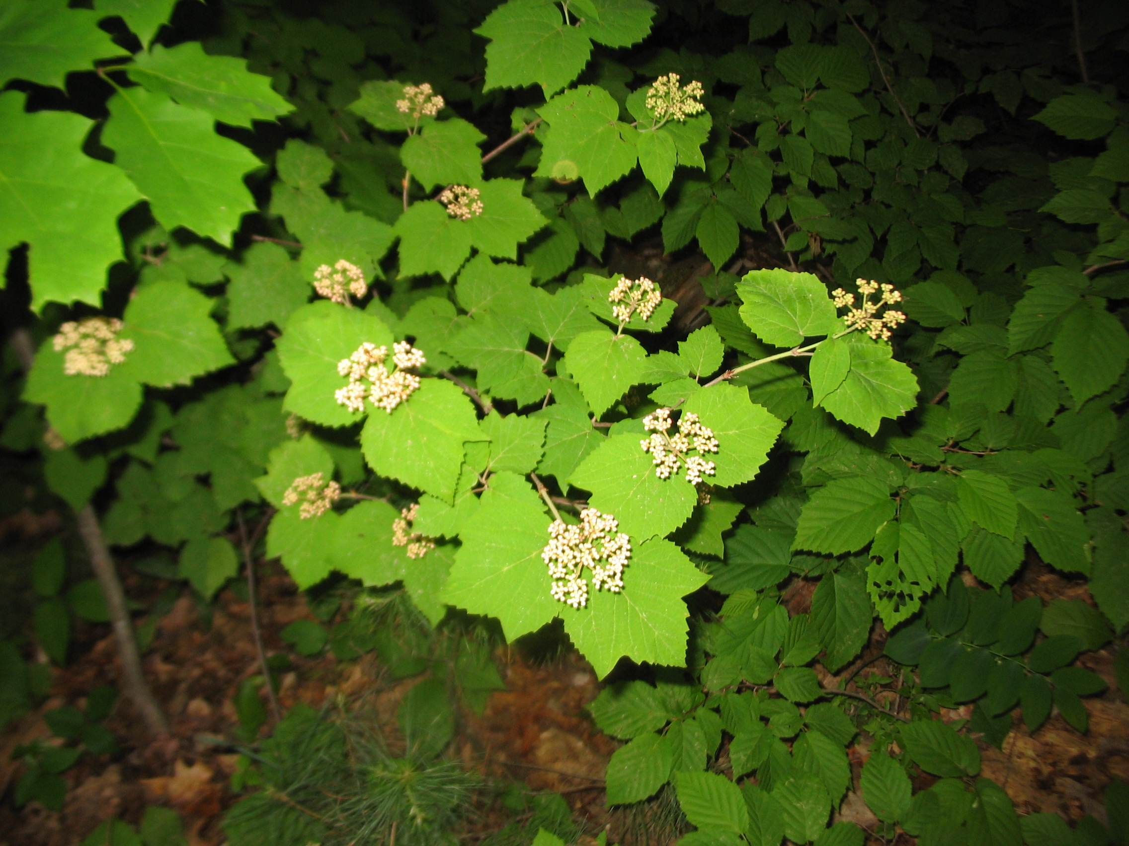 Photo of Viburnum acerifolium in bloom.